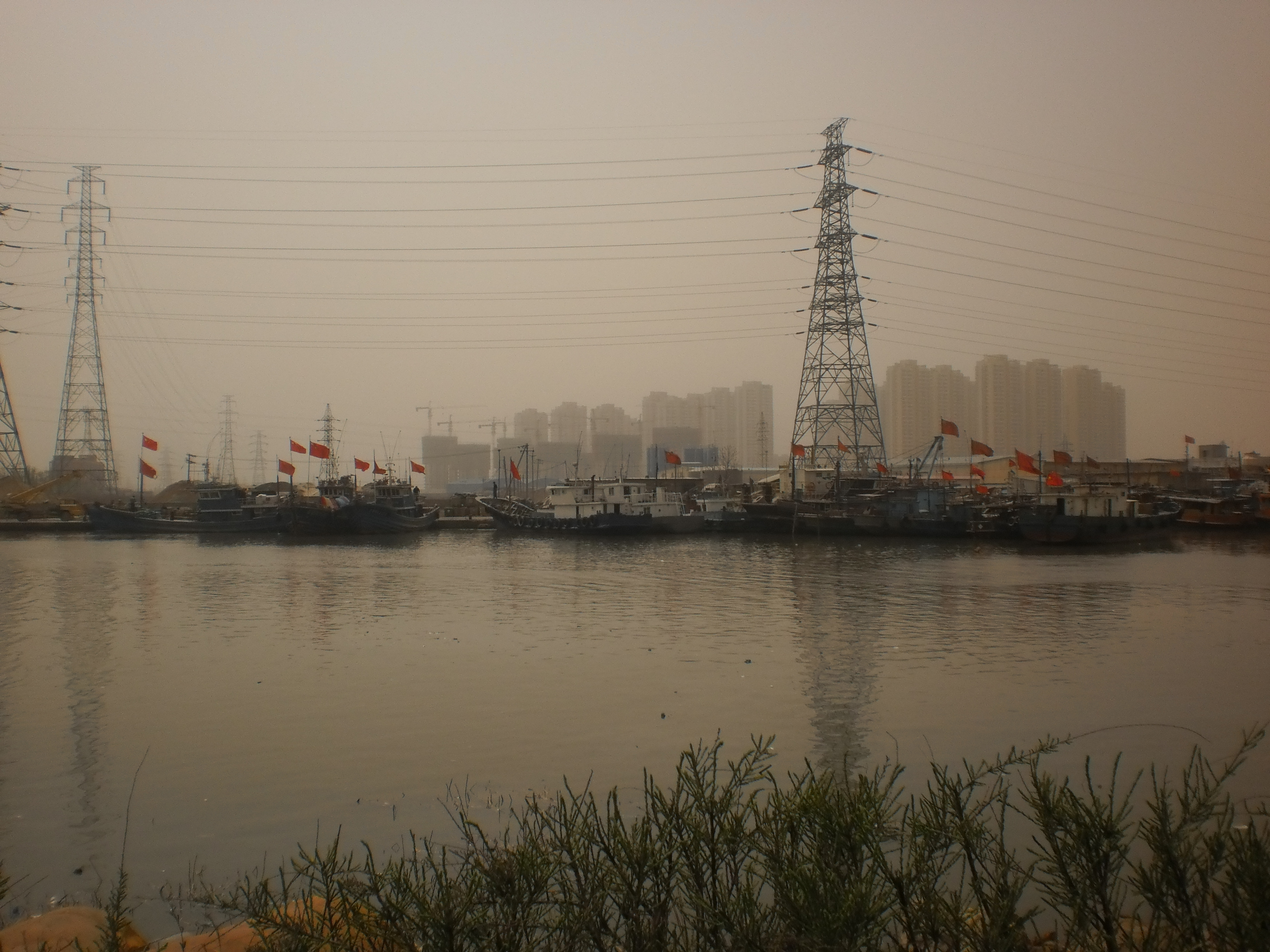 Around 400 fishing boats moor at the Haihe estuary and Donggu cove. The facilities for the fishing port are being dismantled to make way for development, so it's not clear what the operational future of the Donggu fishing port is.